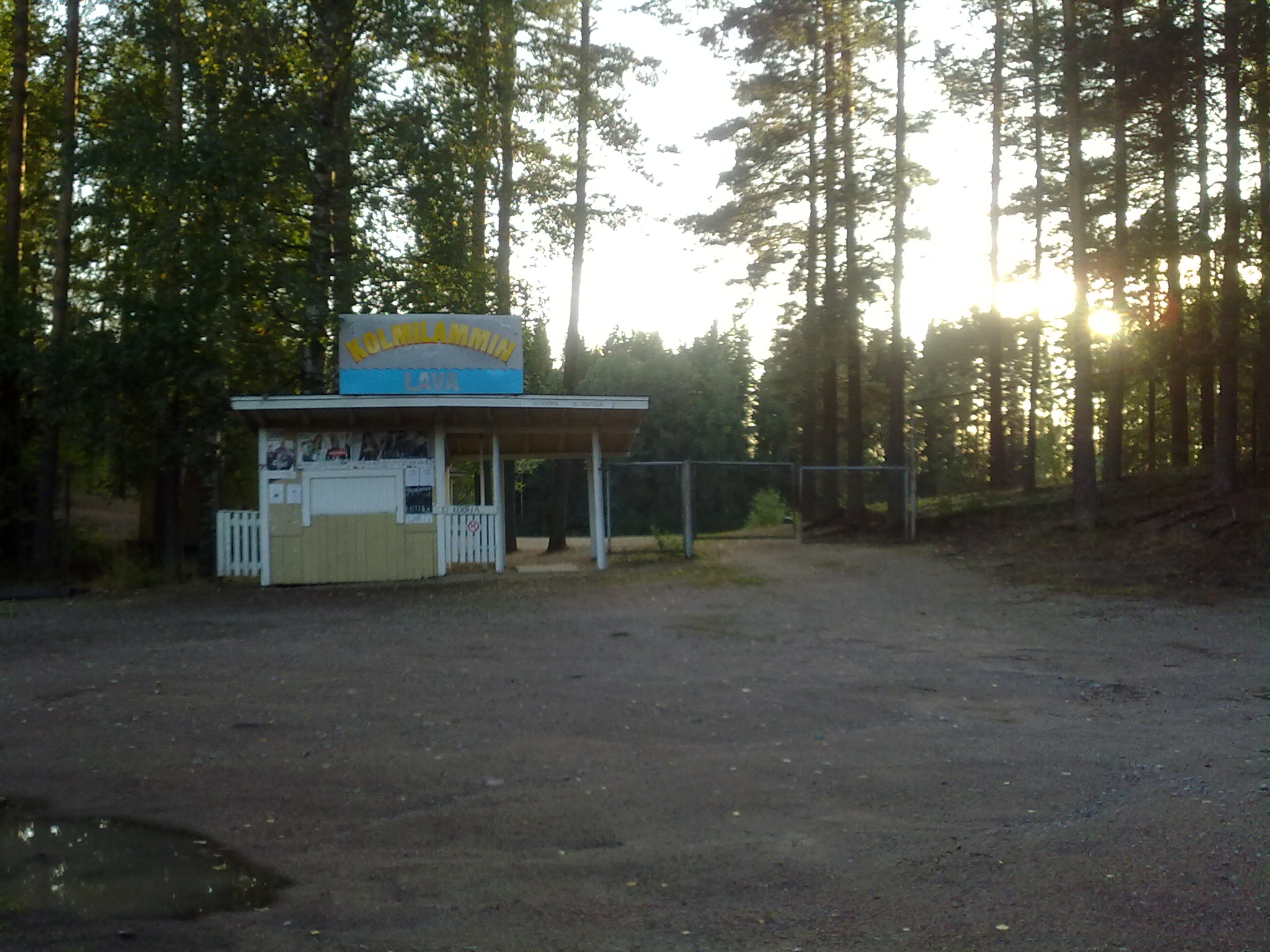 Kolmilammin's stage in Hausjärvi.